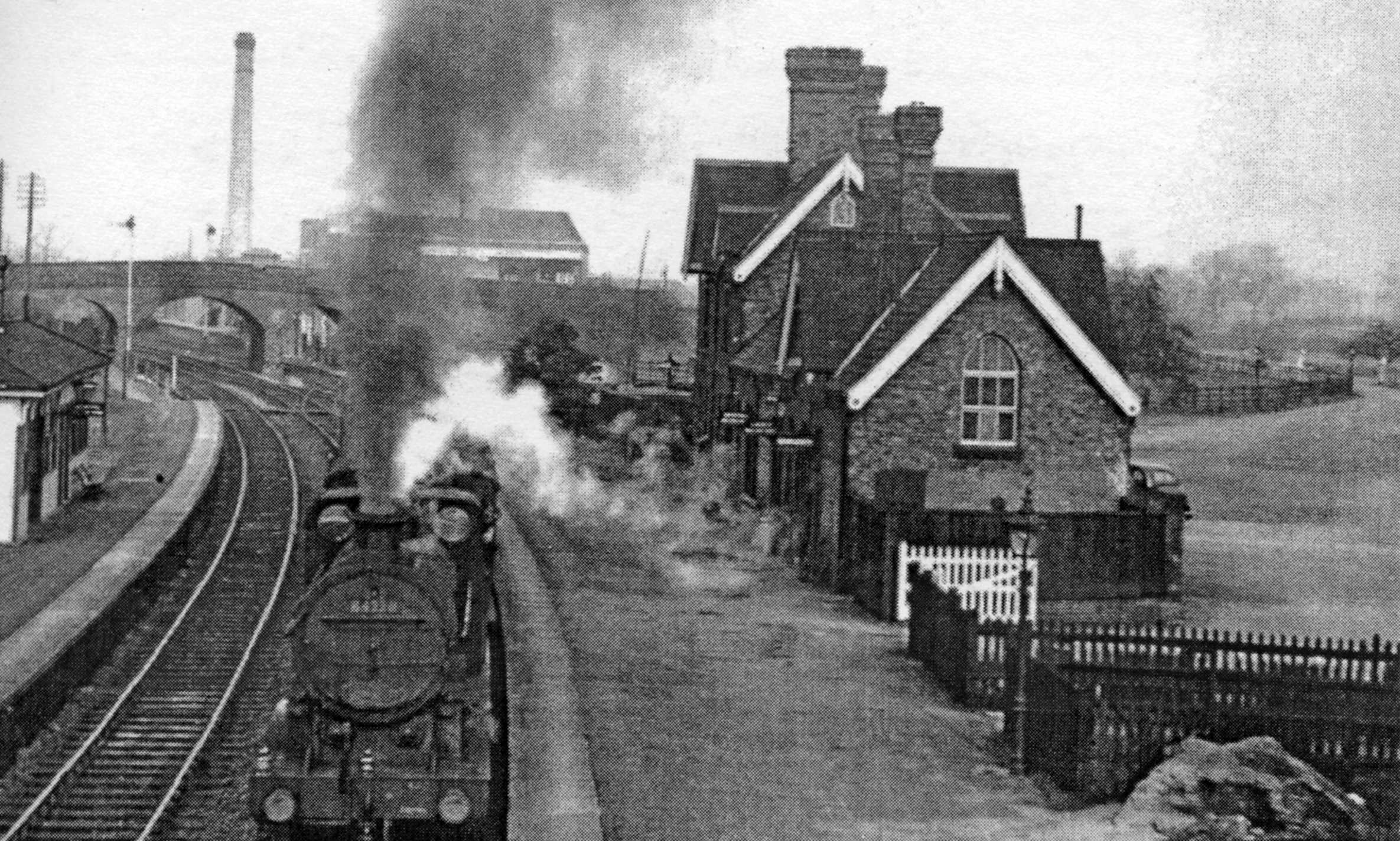 Egginton Junction station, 1949View eastward, towards Derby (Friargate) and Nottingham ex-Great Northern Railway, also ex-North Stafford Railway to Derby (Midland). The train is for Uttoxeter and Stafford from Derby (Friargate), headed by ex-GN Ivatt J6 class 0-6-0 No. 64238 (built 10/14 as 539, withdrawn 10/59). The station was closed 5/3/62, but the line used by Derby Research Centre until 9/7/90.